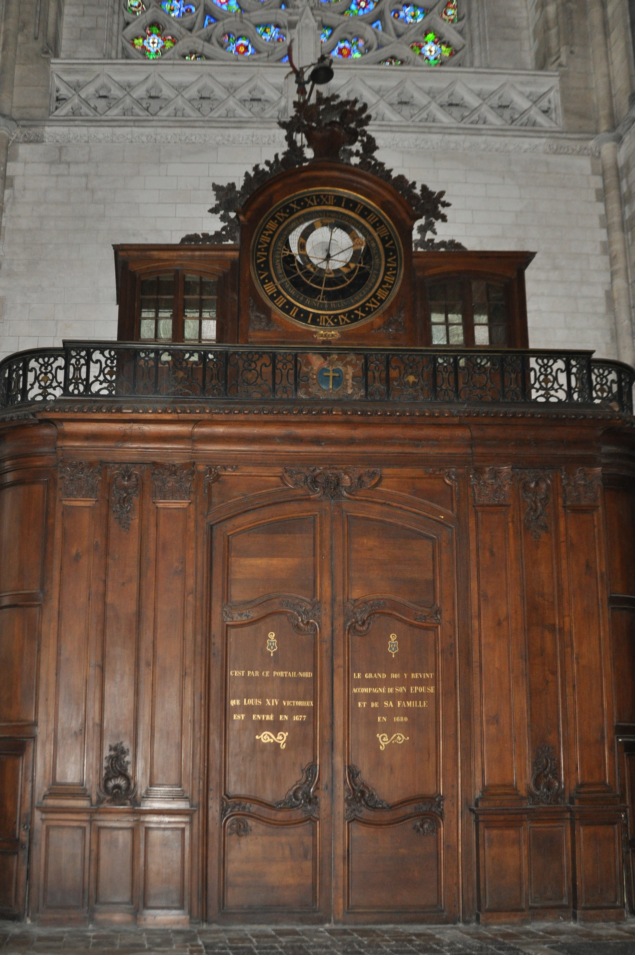 Horloge de la Cathédrale Notre Dame, à Saint-Omer